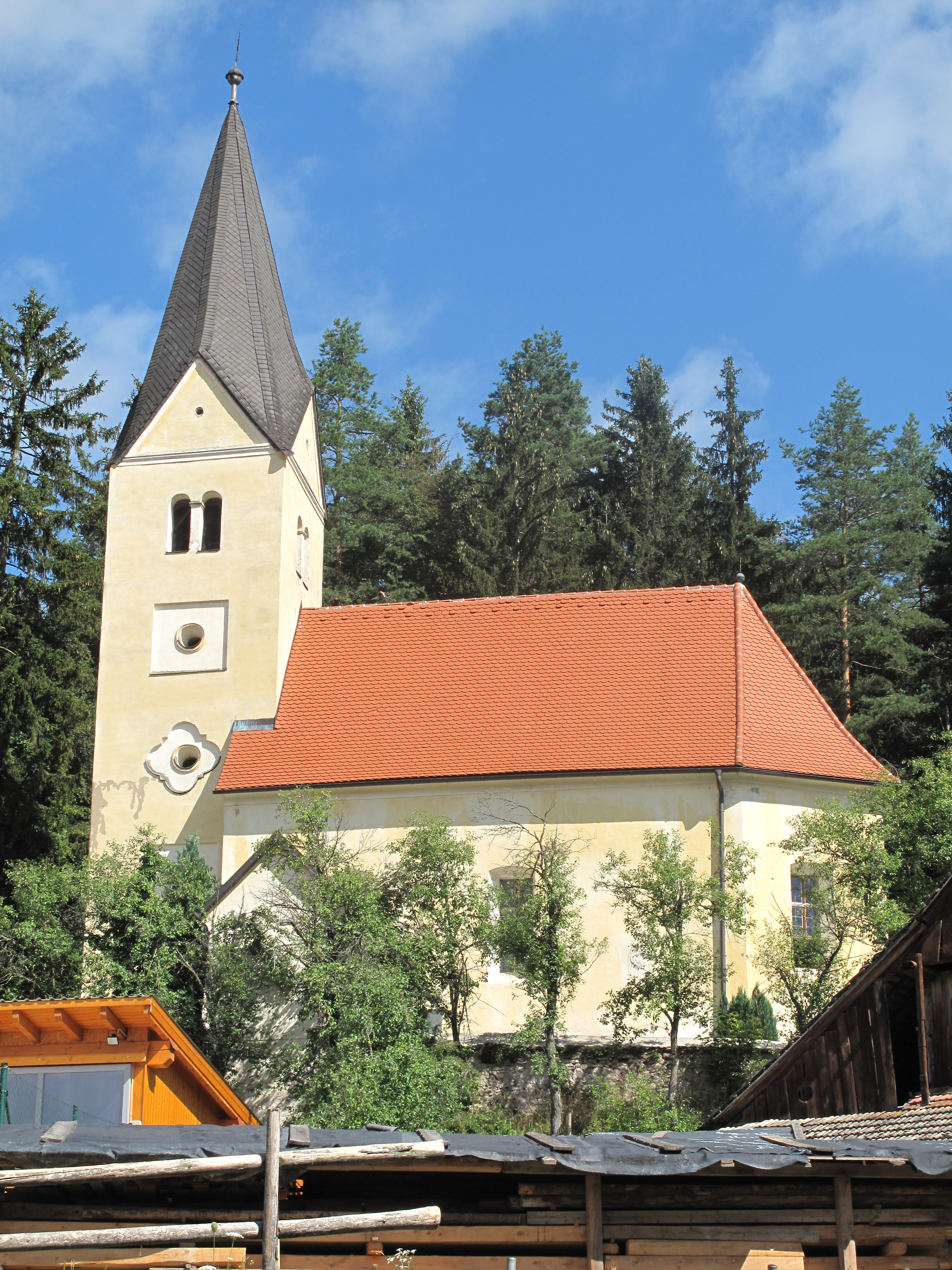 Eis, church